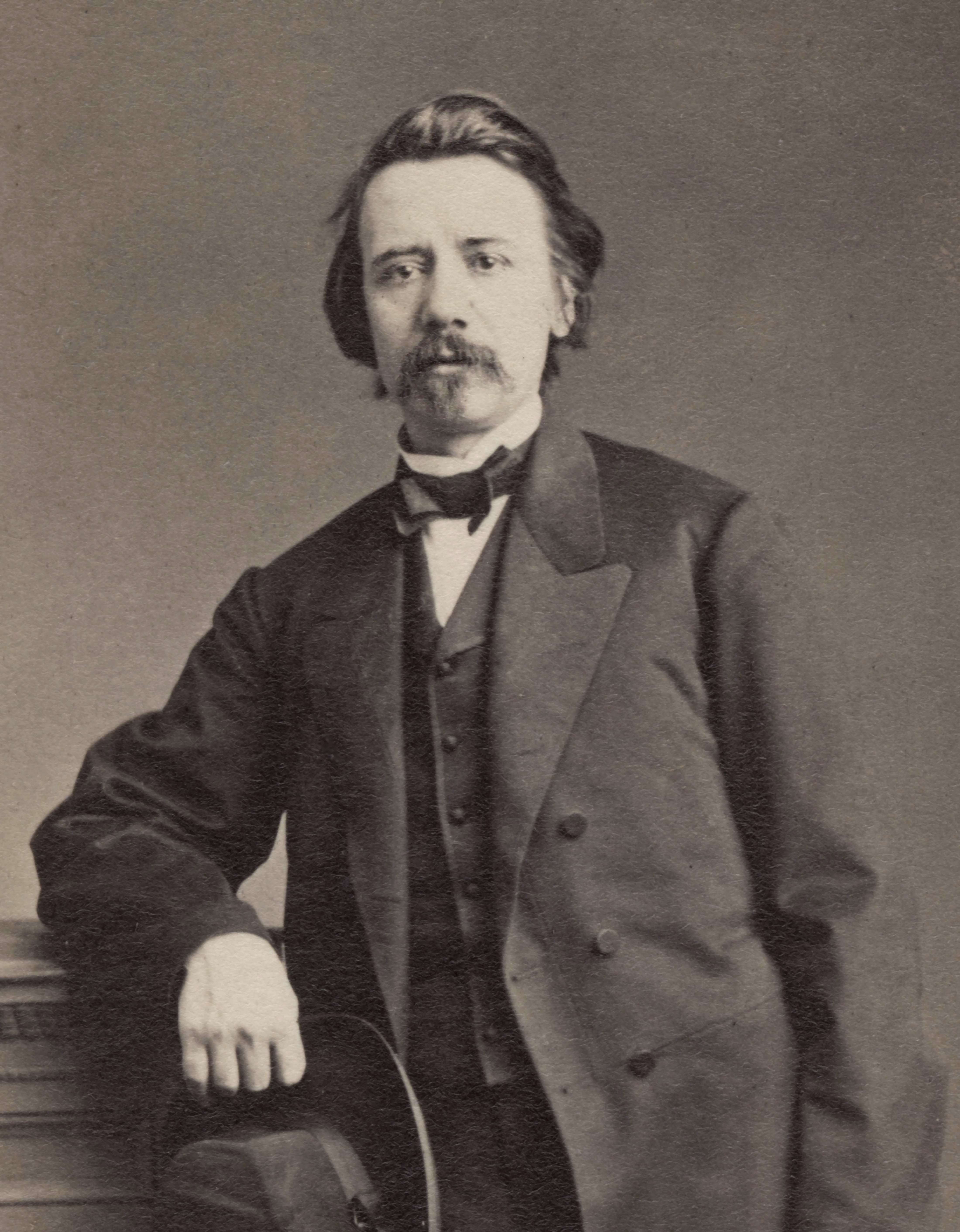 image of Harvey Dodworth.